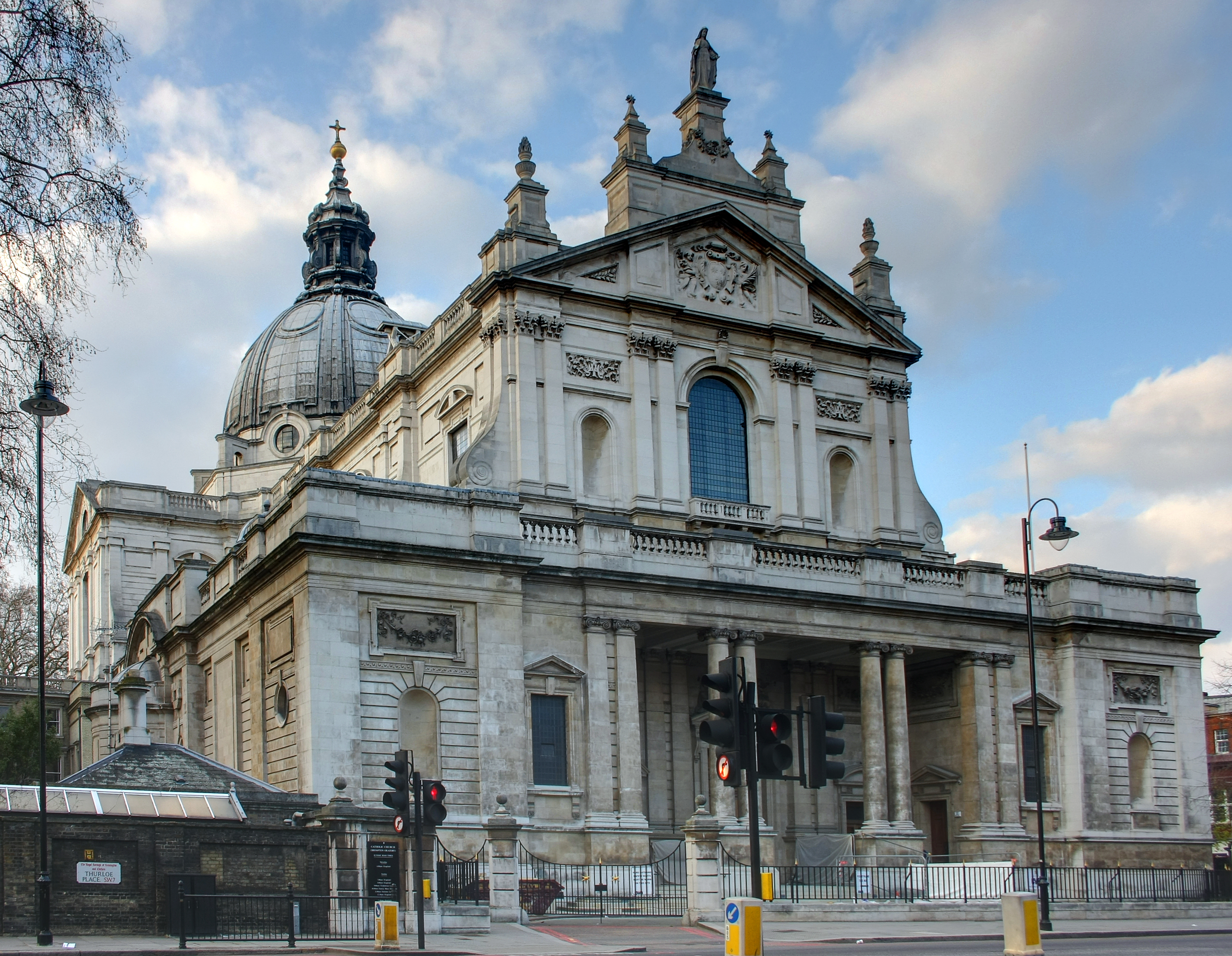 Brompton Oratory, Catholic church in London